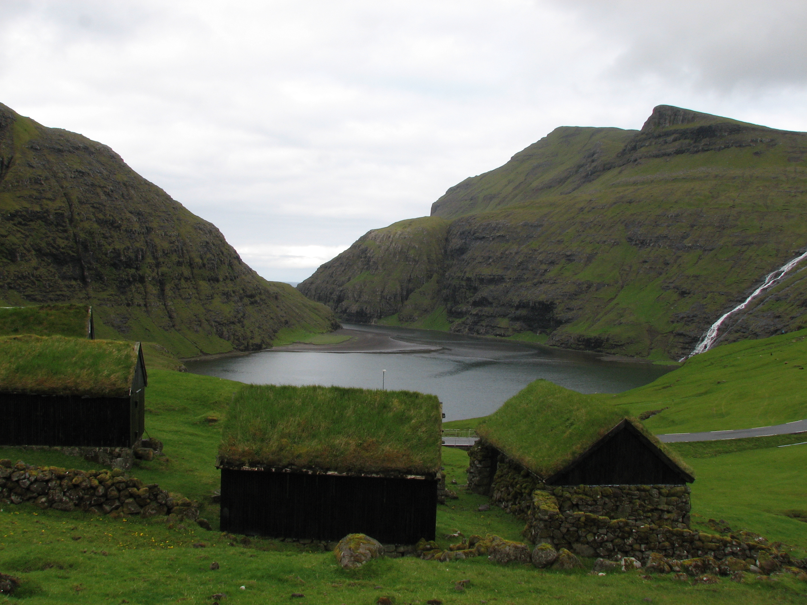 A viking village with a stunning view. People knew where to live.